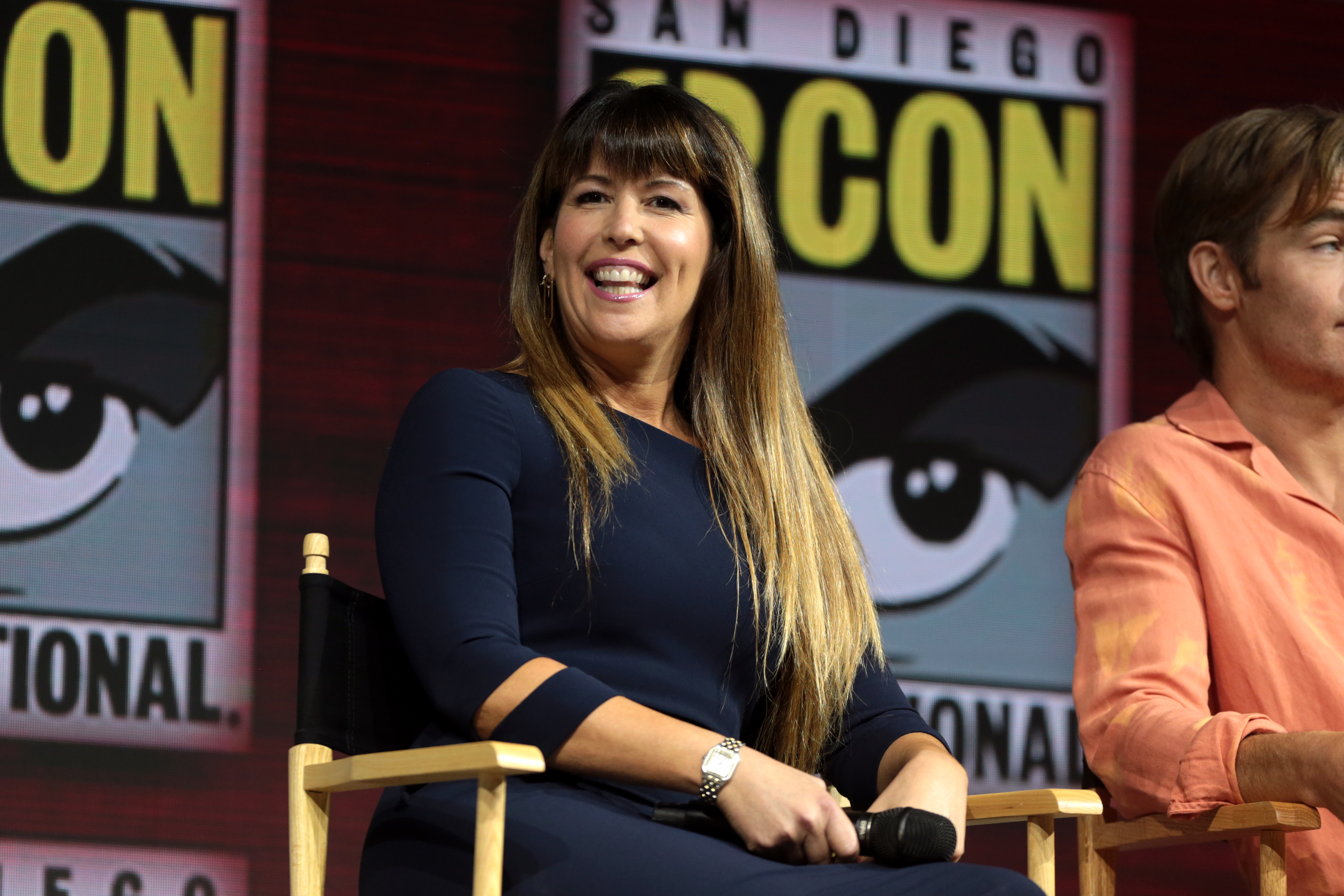 Patty Jenkins speaking at the 2018 San Diego Comic Con International, for "Wonder Woman 1984", at the San Diego Convention Center in San Diego, California.